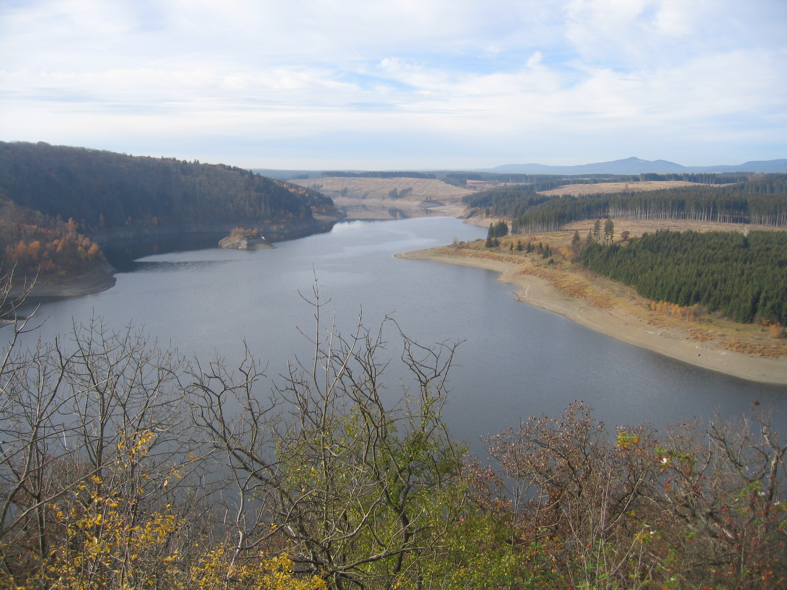 View of the Rappbode Reservoir in the Harz Mountains looking west along the main reservoir from the viewing point at Rotestein